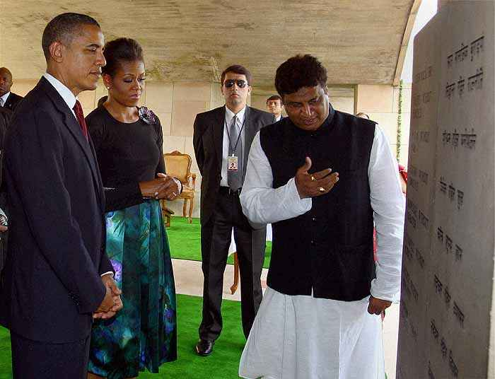 Rajnish kumar with the President Barack Obama